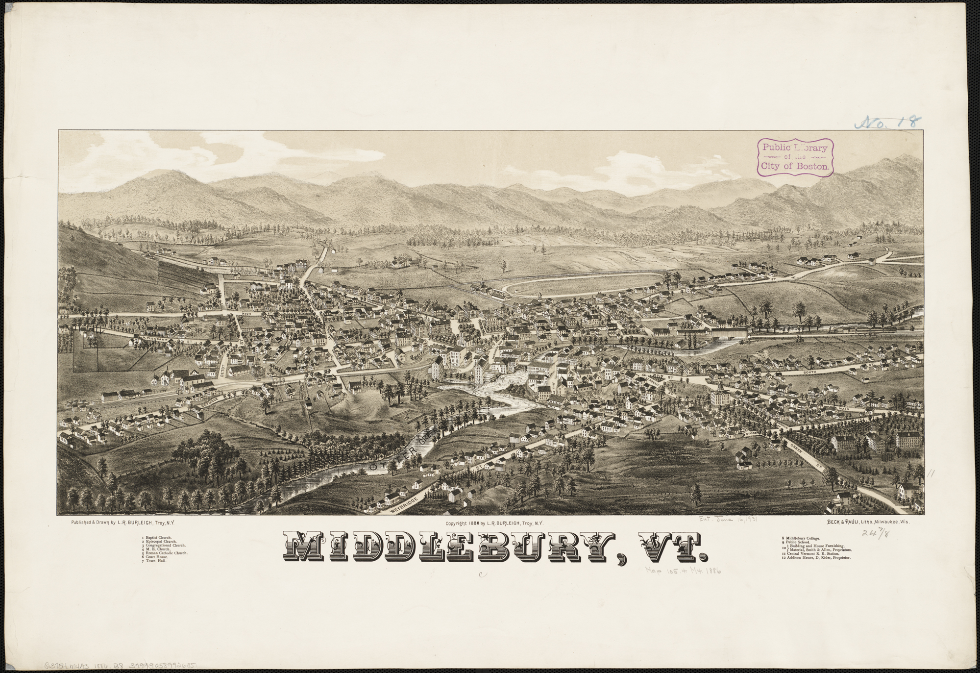 Zoom into this map at . Author: Burleigh, L. R. Publisher: L.R. Burleigh Date: c1886. Location: Middlebury (Vt.) Scale: Not drawn to scale. Call Number: G3754.M4A3 1886.B8